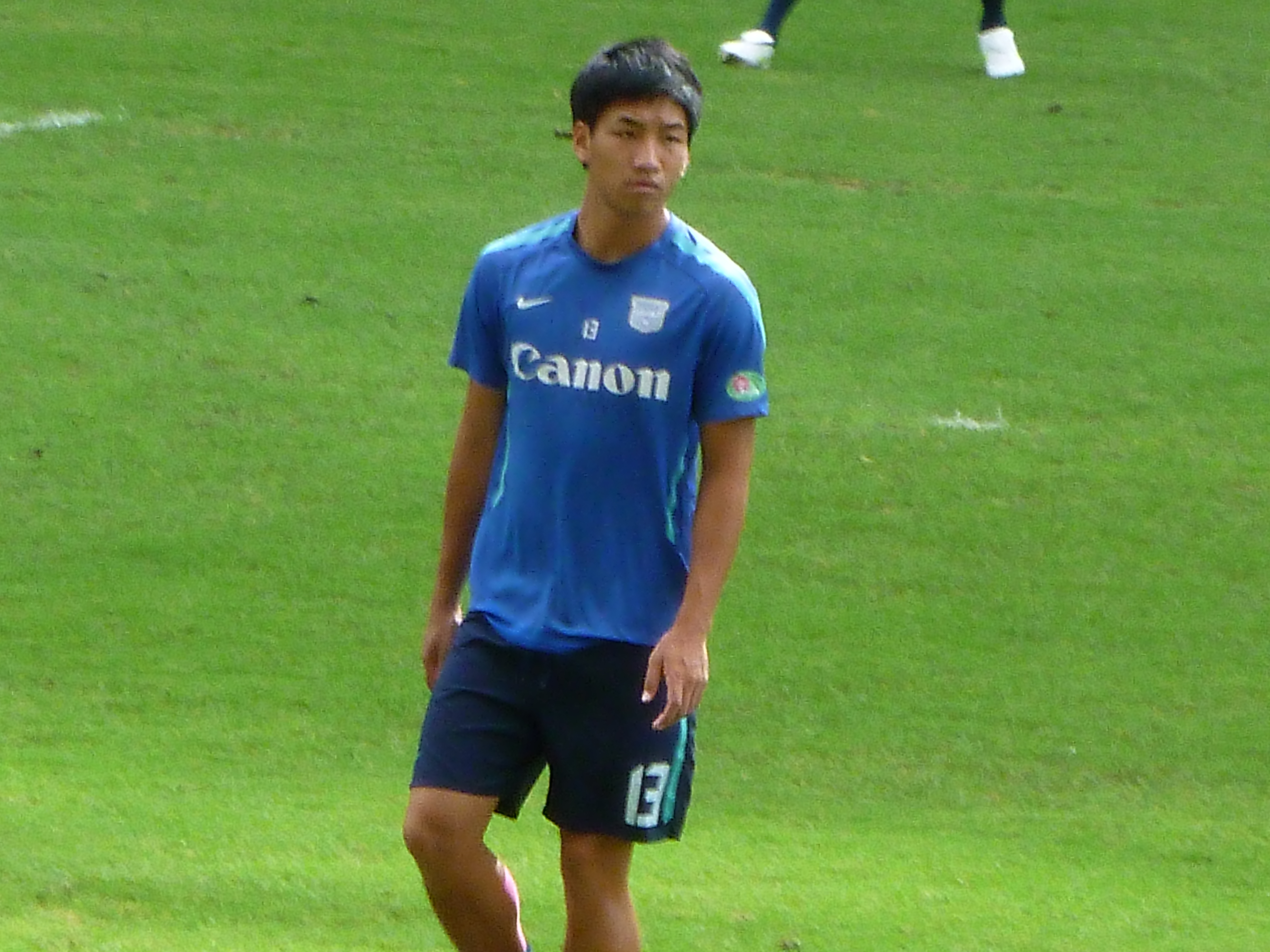 Chan Man Fai (26 May 2012 Hong Kong FA Cup final, Kitchee vs TSW Pegasus, Hong Kong Stadium)